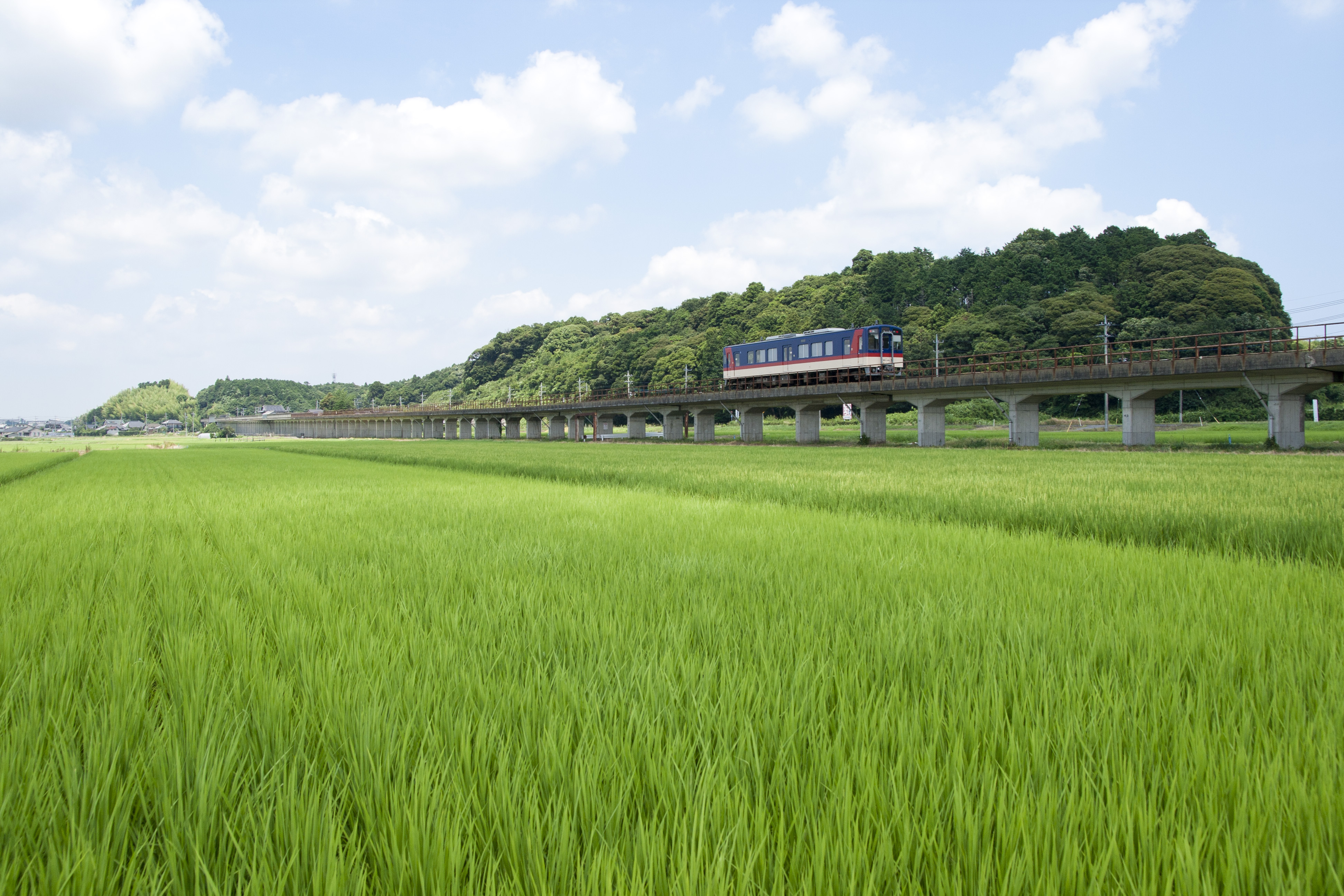 Kashima Rinkai Railway 8000 series train on the Oarai Kashima Line in Hokota, Ibaraki Prefecture, Japan